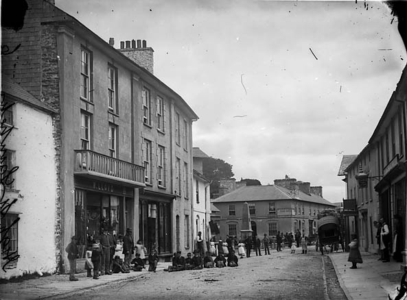 1 negative : glass, wet collodion, b&w ; 8.5 x 11 cm.